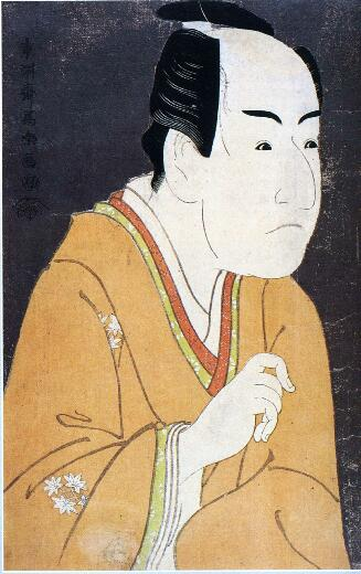 Ichikawa Monnosuke II as Date no Yosaku in the kabuki play "Koi-nyōbō Somewake Tazuna"